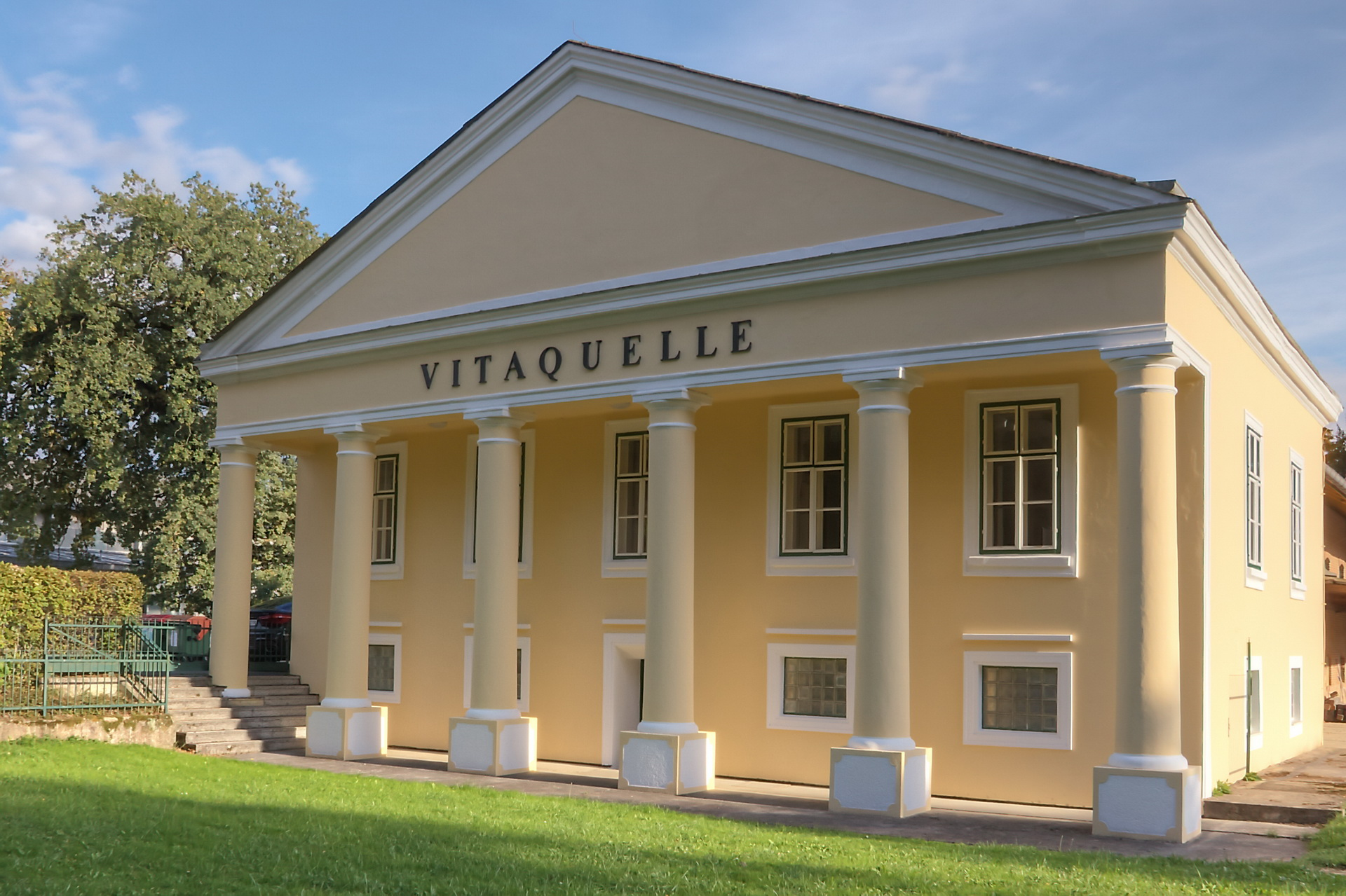 Vitaquellen Tempel